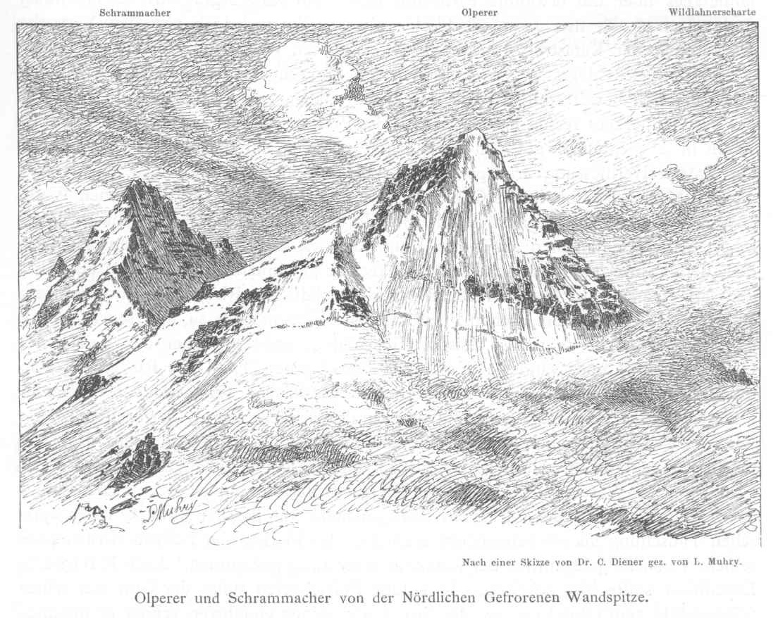 Olperer (right) and Schrammacher (left)